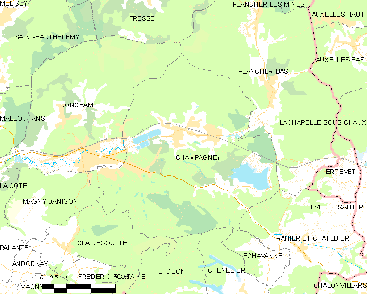 Map of French municipality